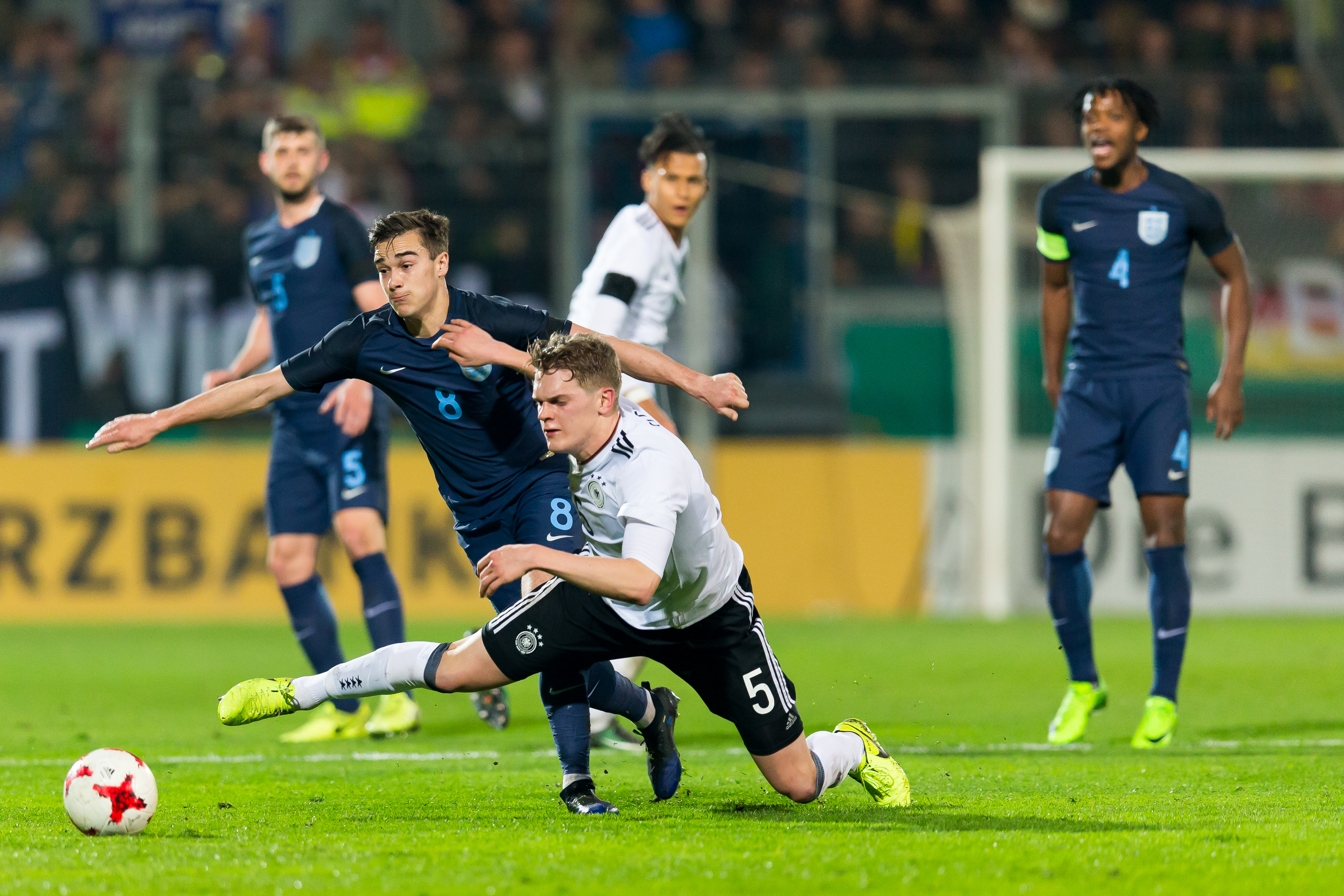 Football U21 Germany vs England (1:0) Team Germany 12 Julian Pollersbeck (1. FC Kaiserslautern) 1 Marvin Schwäbe (Dynamo Dresden) 23 Odisseas Vlachodimos (Panathinaikos Athen) 16 Kevin Akpoguma (Fortuna Düsseldorf) 3 Yannick Gerhardt (VfL Wolfsburg) 5 Matthias Ginter (Borussia Dortmund) 22 Benjamin Henrichs (Bayer 04 Leverkusen) 15 Marc-Oliver Kempf (SC Freiburg) 4 Niklas Stark (Hertha BSC) 13 Jeremy Toljan (1899 Hoffenheim) 2 Mitchell Weiser (Hertha BSC) 18 Nadiem Amiri (1899 Hoffenheim) 10 Maximilian Arnold (VfL Wolfsburg) 25 Hany Mukhtar (Brøndby IF) 7 Max Meyer (FC Schalke 04) 19 Janik Haberer (SC Freiburg) 21 Gideon Jung (Hamburger SV) 20 Levin Öztunali (1. FSV Mainz 05) 17 Maximilian Philipp (SC Freiburg) 9 Davie Selke (RB Leipzig) 27 Thilo Kehrer (FC Schalke 04) Team England 1 Jordan Pickford (Sunderland) 2 Mason Holgate (Everton) 13 Angus Gunn (Manchester City) 21 Christian Walton (Brighton) 16 Kortney Hause (Wolverhampton) 5 Jack Stephens (Southampton) 15 Rob Holding (Arsenal) 12 Joe Gomez (Liverpool) 3 Ben Chilwell (Leicester City) 6 Alfie Mawson (Swansea City) 22 Sam McQueen (Southampton) 4 Nathaniel Chalobah (Chelsea) 14 Will Hughes (Derby County) 20 Ruben Loftus-Cheek (Chelsea) 10 Lewis Baker (Vitesse Arnheim) 18 John Swift (Reading) 23 Jack Grealish (Aston Villa) 8 Harry Winks (Hotspur) 19 Cauley Woodrow (Fulham) 9 Tammy Abraham (Bristol City) 17 Solly March (Brighton) 11 Jacob Murphy (Norwich) during Fussball U21 Deutschland vs England at Brita-Arena, Wiesbaden, Hessen, Germany on 2017-03-24, Photo: Sven Mandel